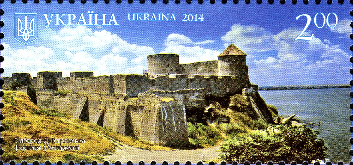 Stamps of Ukraine, 2014